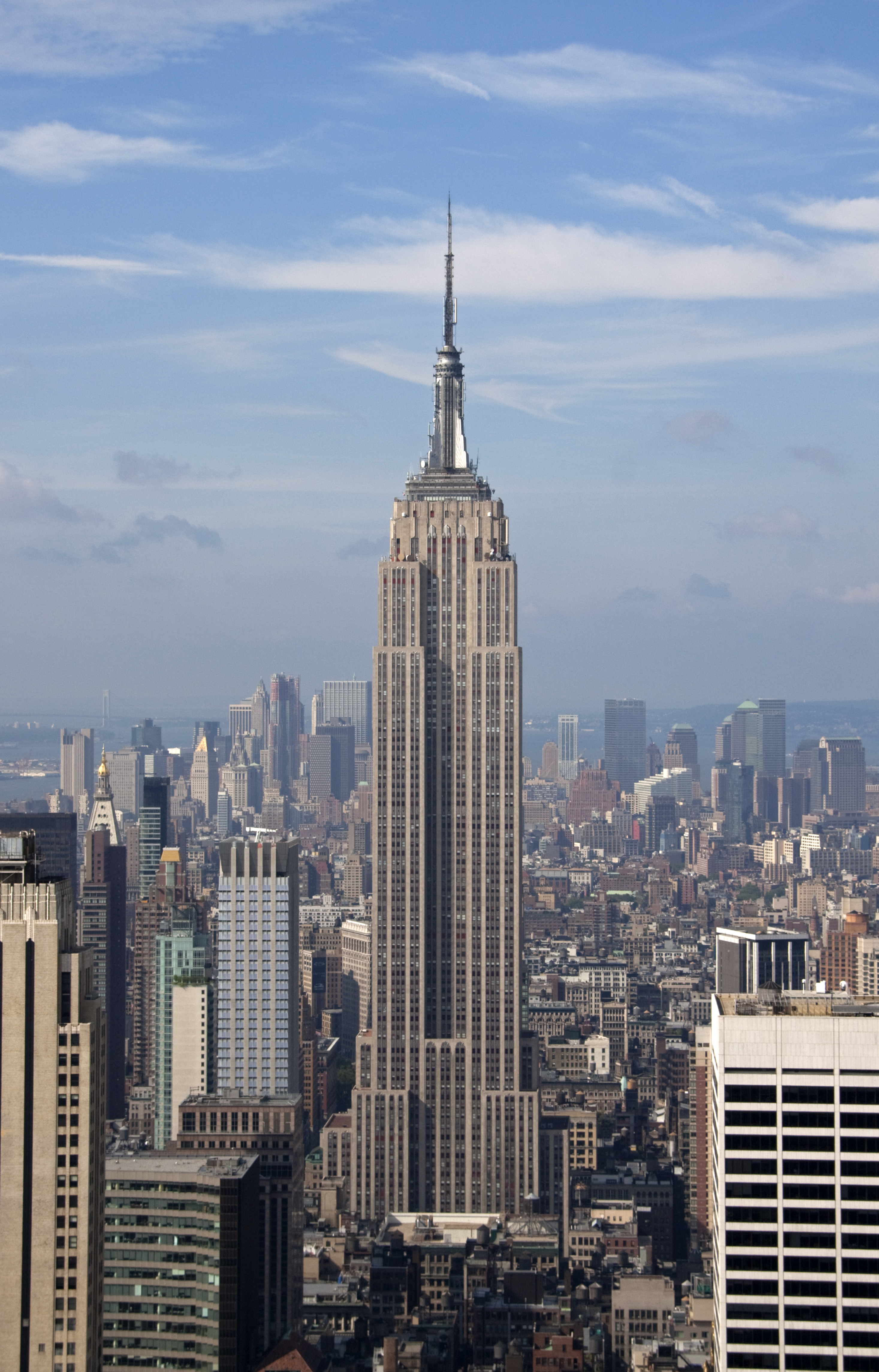 Empire State Building from the Top of the Rock